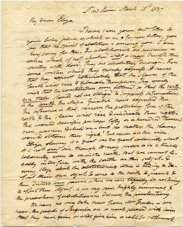 Letter from lexicographer Noah Webster, originator of Webster's dictonary, to his daughter Eliza on the subject of abolitionism. From the Webster family papers, Yale University Manuscripts & Archives Digital Images Database, Yale University, New Haven, Connecticut. New Haven March 18 th 1837 My dear Eliza, I have seen your last letter to your sister Julia, in which, as in a former letter, you say that the spirit of abolition is among you. I am very sorry for this. The abolitionists are pursuing a course which, if not checked, will or may drench this country with blood. They are absolutely deranged. From some wishes which they openly express, it seems that they expect ultimately that the slaves of the South will rise & liberate themselves. They openly wish that the constitution were altered so that the northern states should not be obliged to suppress insurrections in the south. The Misses Grimke have expressed this. The inference in that, remove the protecting force of the north & the slaves will rise & vindicate their right—this would sacrifice fifty or perhaps a hundred thousand men, women and children—but no matter, the slaves would obtain their rights! Such appear to be their wishes. Eliza, slavery is a great sin & a great calamity—but it is not our sin, though it may prove to be a terrible calamity even to us in the north. But we cannot legally interfere with the south on this subject—& every step which the abolitionists take is tending to defeat their own object. To come to the north to preach & then disturb our peace, when we can legally do nothing to affect their object, is, in my view, highly criminal, & the preachers of abolitionism deserve the penitentiary. We have no very late news ...